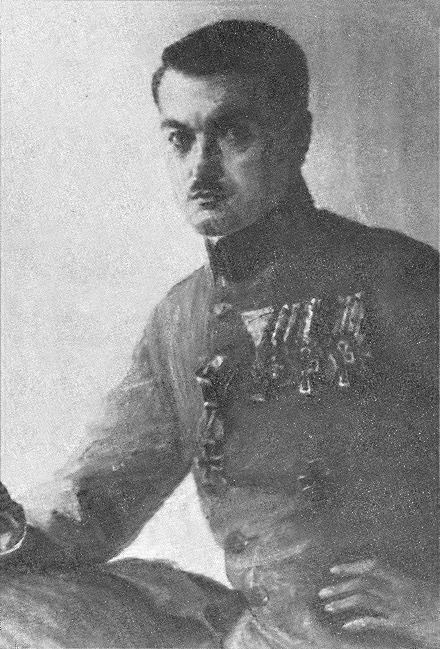 Photography of Erwin Drahowzal (1889-1967)